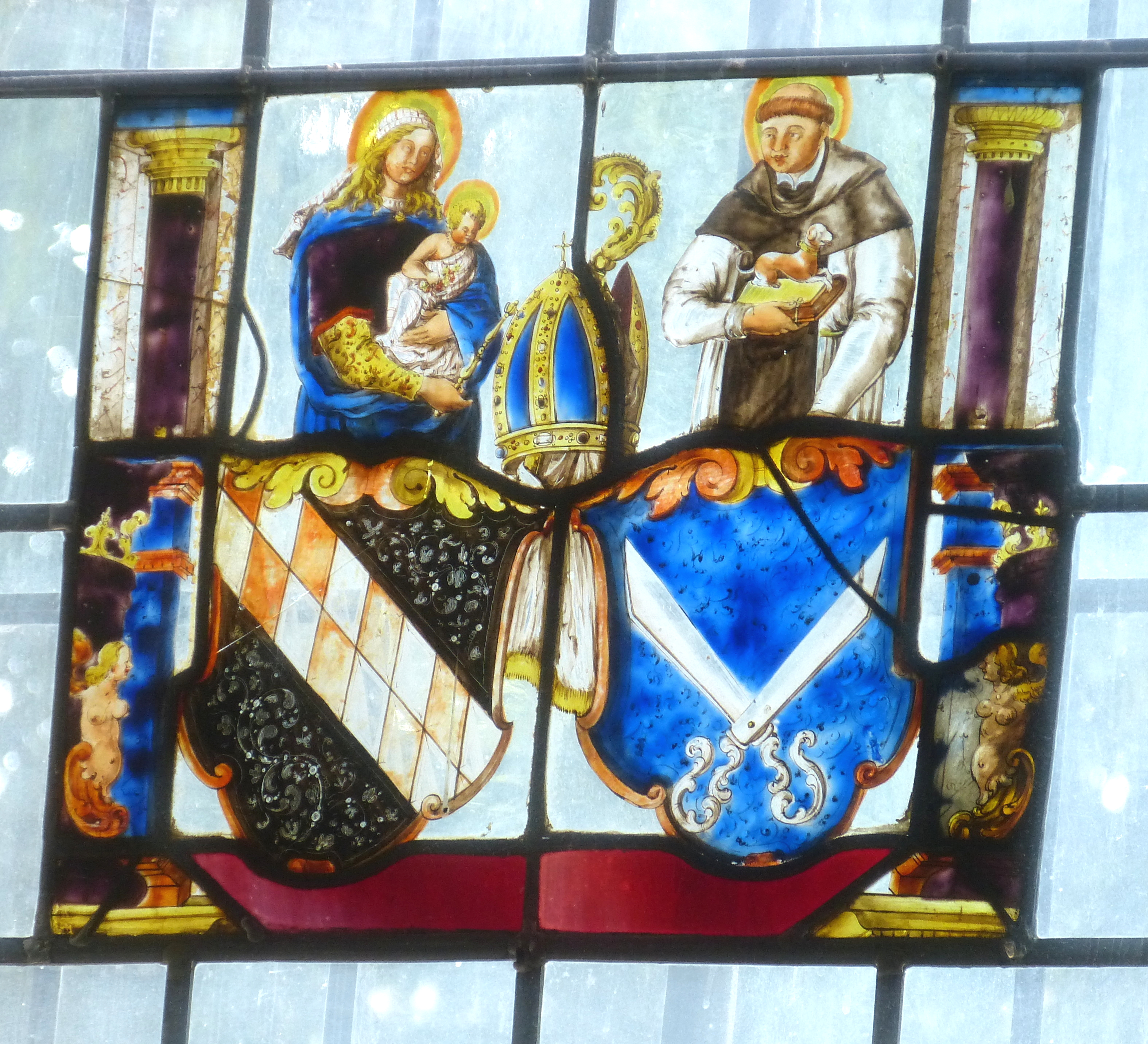 Parish church: Stained glass window showing the coats of arms of Peter II Scherenberger von Brückenau, abbot of Ebrach monastery ( 1646-1658 )